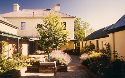 Union Bank of Australia building, Orange: Union Bank of Australia (former)